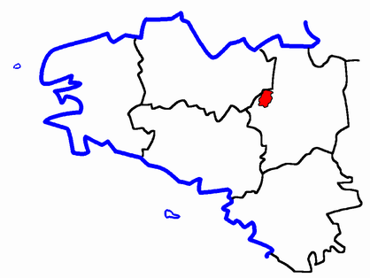 Description: Map for localisazion of cantons of Bretagne region in France Source: made by Hervé Tigier from another large map